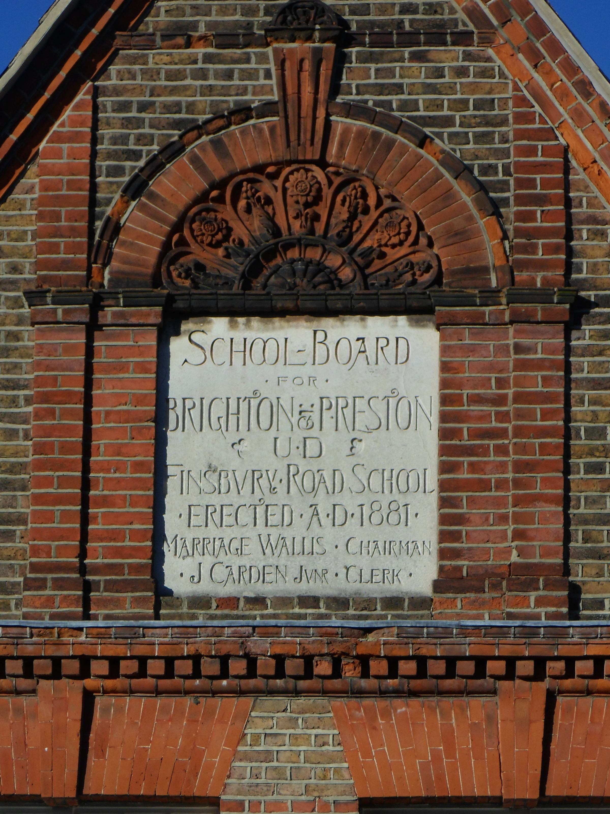 The former Finsbury Road Board School, Finsbury Road, Hanover, City of Brighton and Hove, England. Built as a Board School in 1881 by Thomas Simpson; later converted into loft apartments called Hanover Lofts. This shows the commemorative datestone below one of the gables.